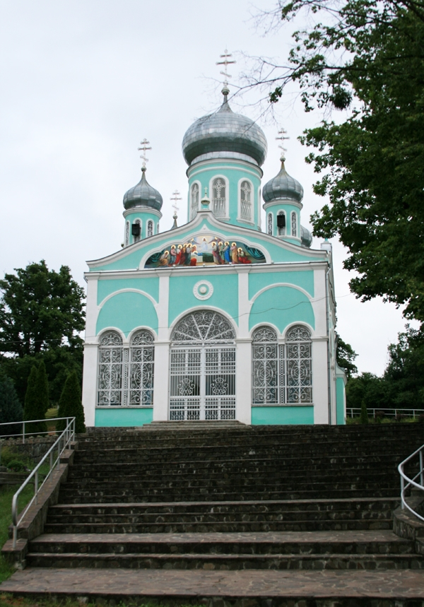 Assumption Church Mukachevo